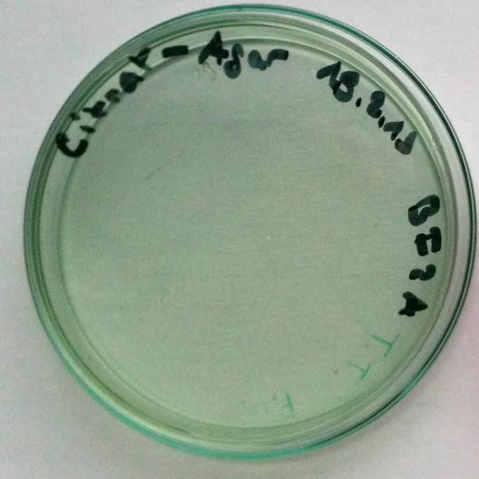 Cosenzaea myxofaciens (formerly classified as Proteus myxofaciens) on Simmons citrate agar, showing a negative result (the microorganism has not the ability to use citrate).